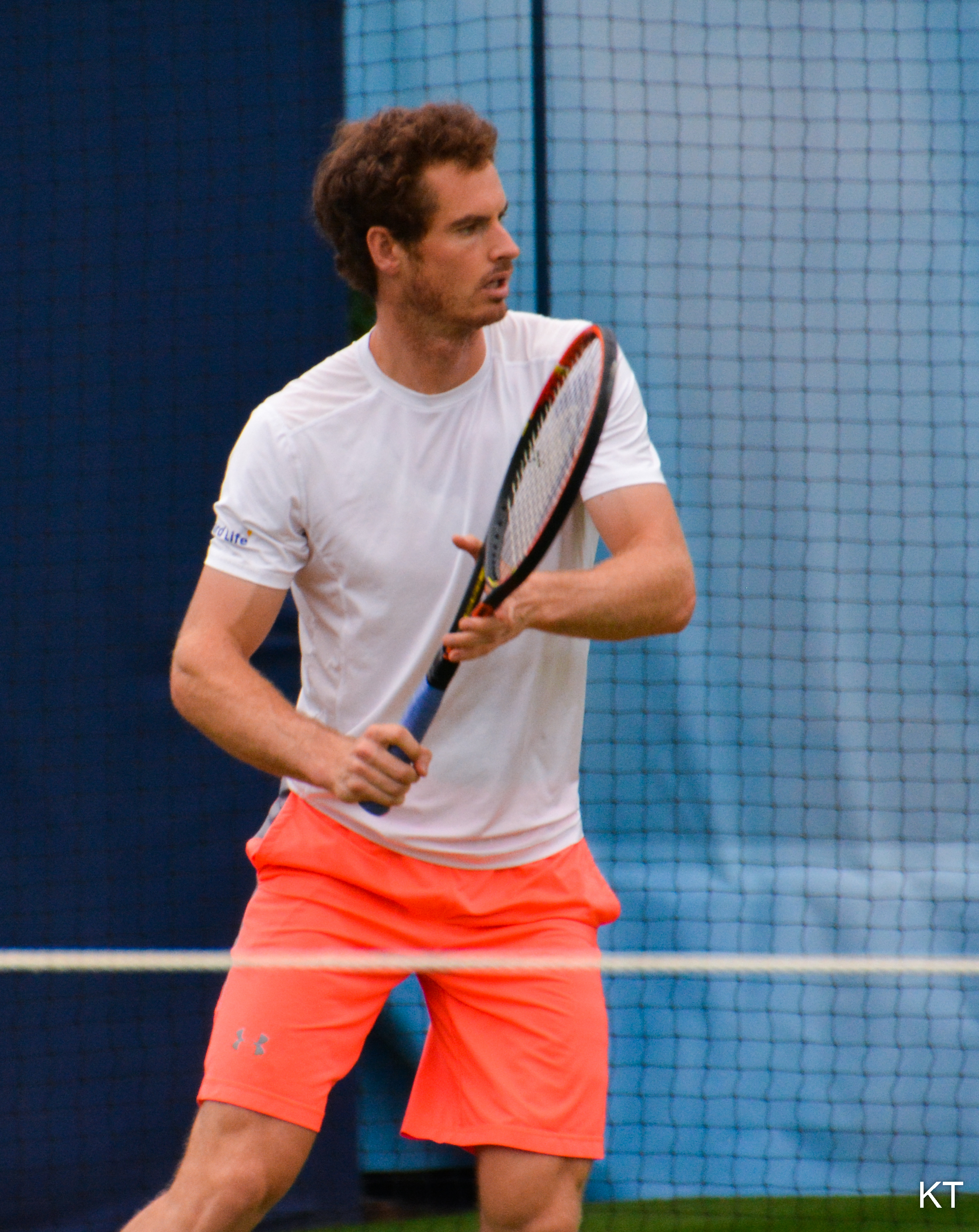 On the practice court with Richard Gasquet. Aegon Championships, Queen's Club, June 2015.